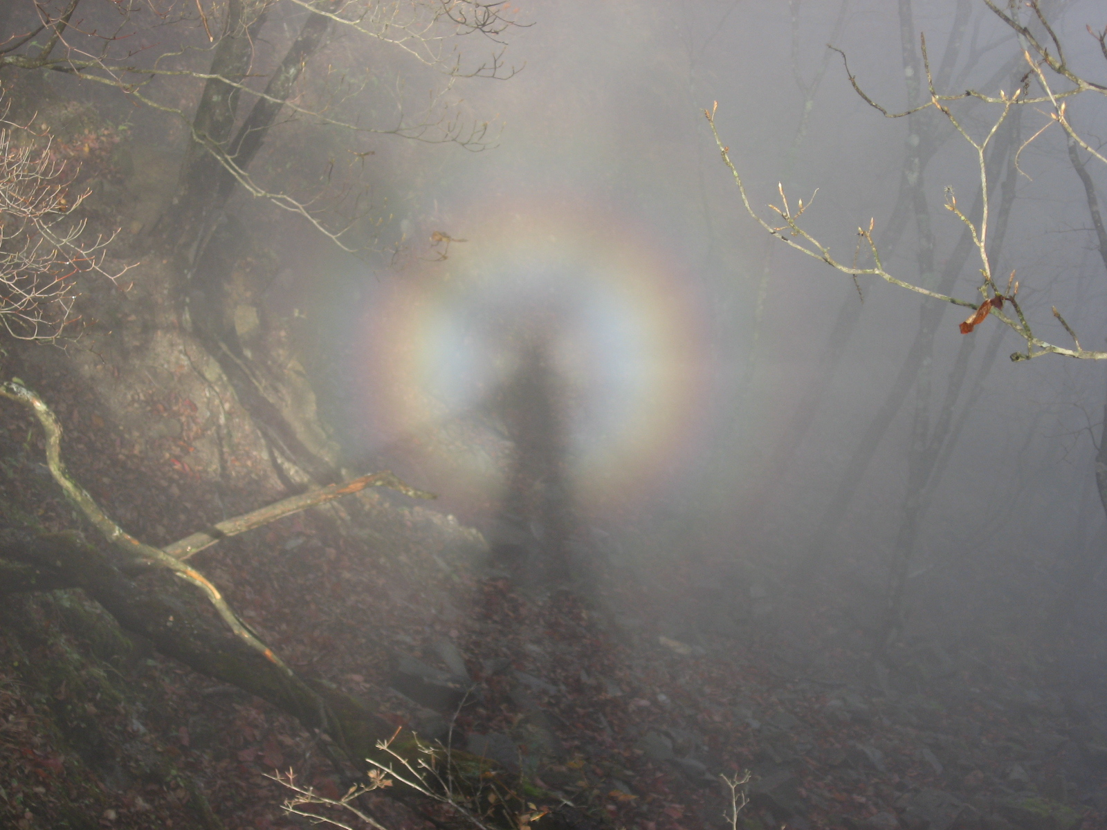 Brocken spectre